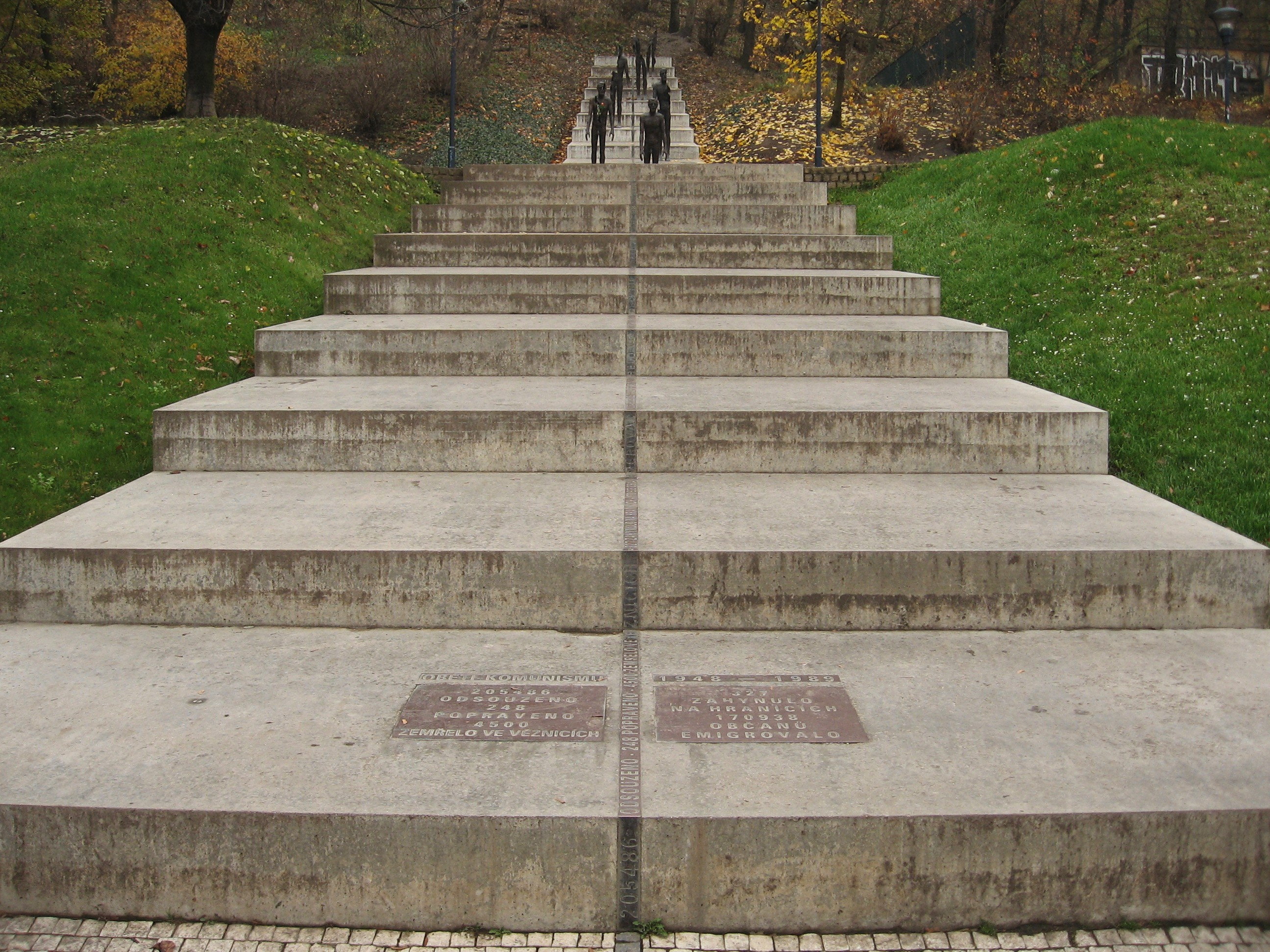 Monument to the victims of communism, sculptures by Olbram Zoubek, project: Zdeněk Hölzl and Jan Kerel. Inauguration: may 2002. Prague